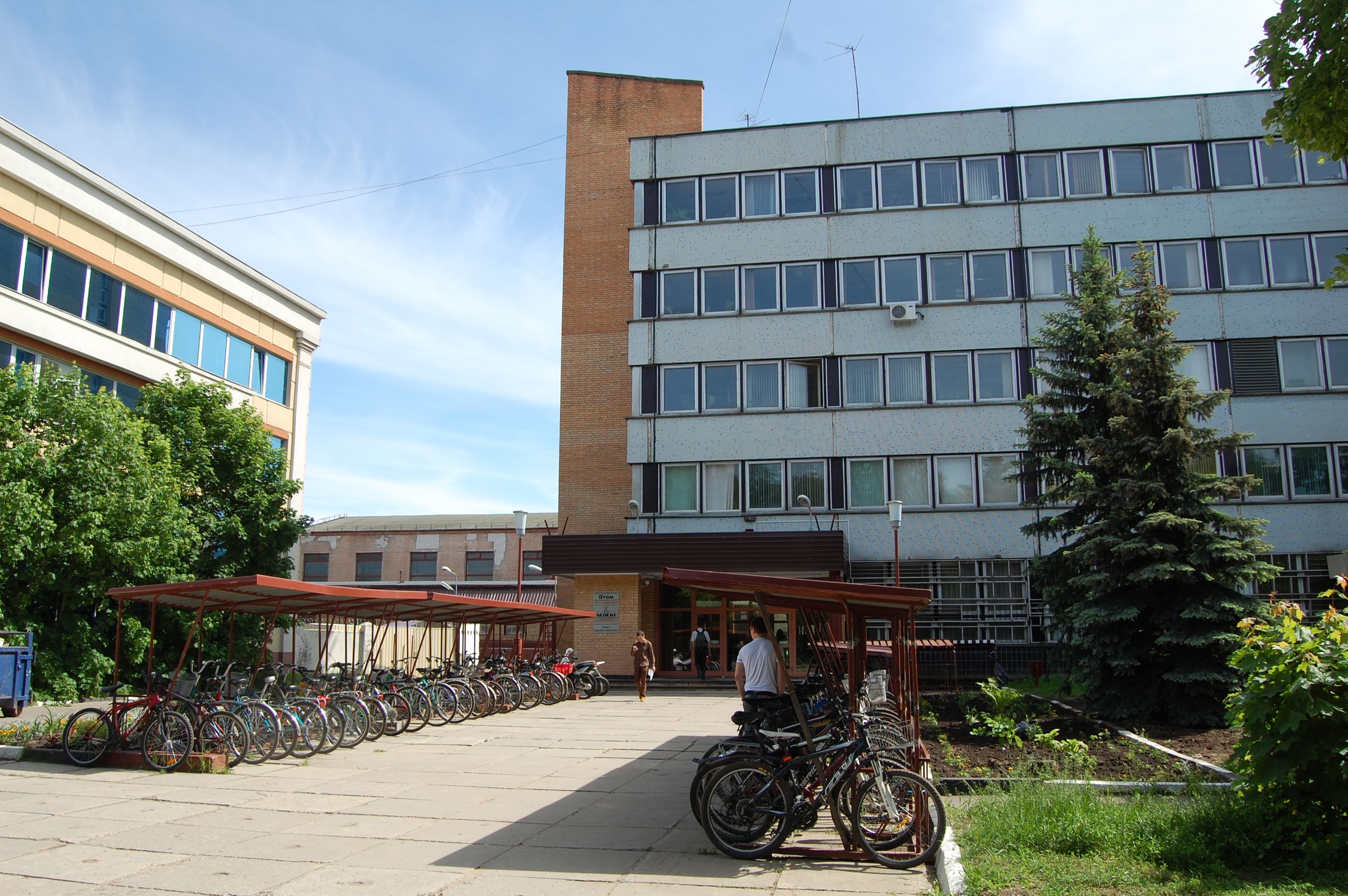 Scientific-Production Association "Atom"